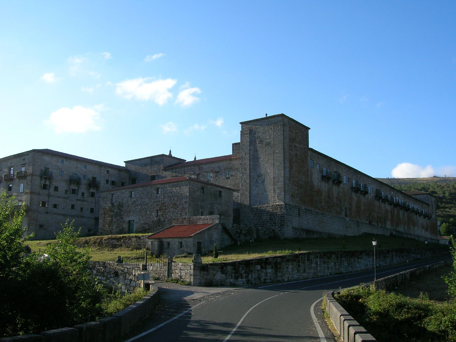 Description Mosteiro de Oseira Date25 May 2007Source Antonio Gil Martínez. FREECATPermission (Reusing this file) cc-by-2.0 Mosteiro de Oseira